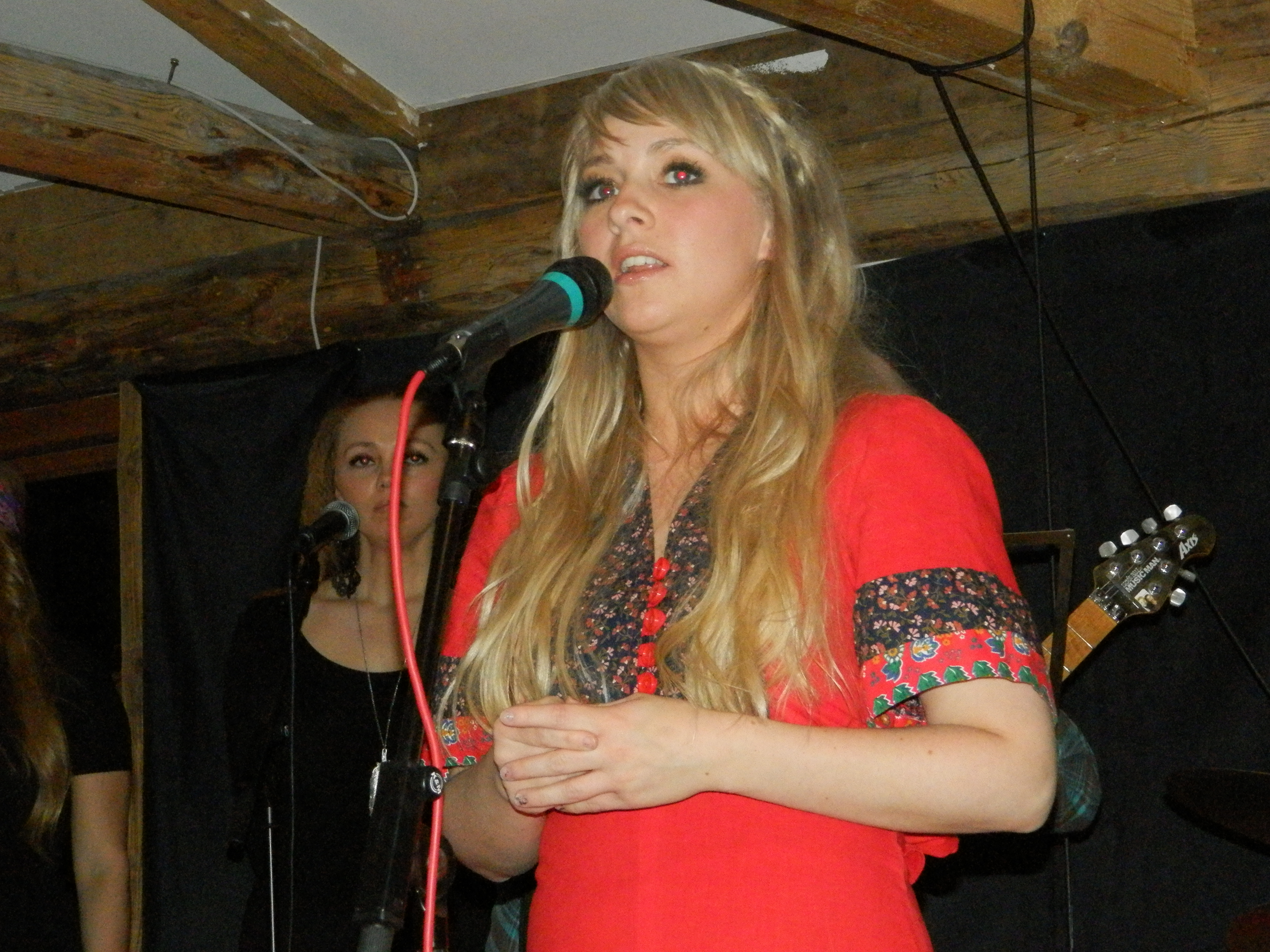 Lív Næs is a Faroese singer-songwriter, composer and guitar player. Føroyskt: Lív Næs er ein føroysk songkvinna, sangskrivari og tónasmiður. Myndin er frá hennara útgávukonsert á Seglloftinum á Tvøroyri hin 15. februar 2013.